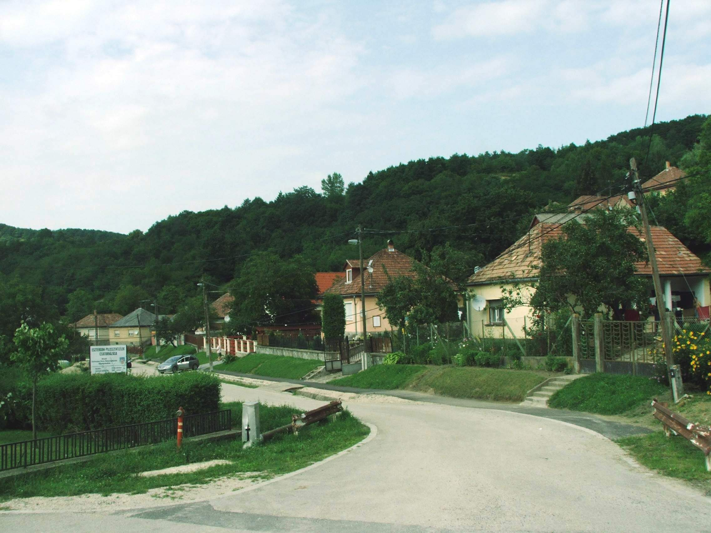 Pilisszentlélek, Esztergom, Hungary